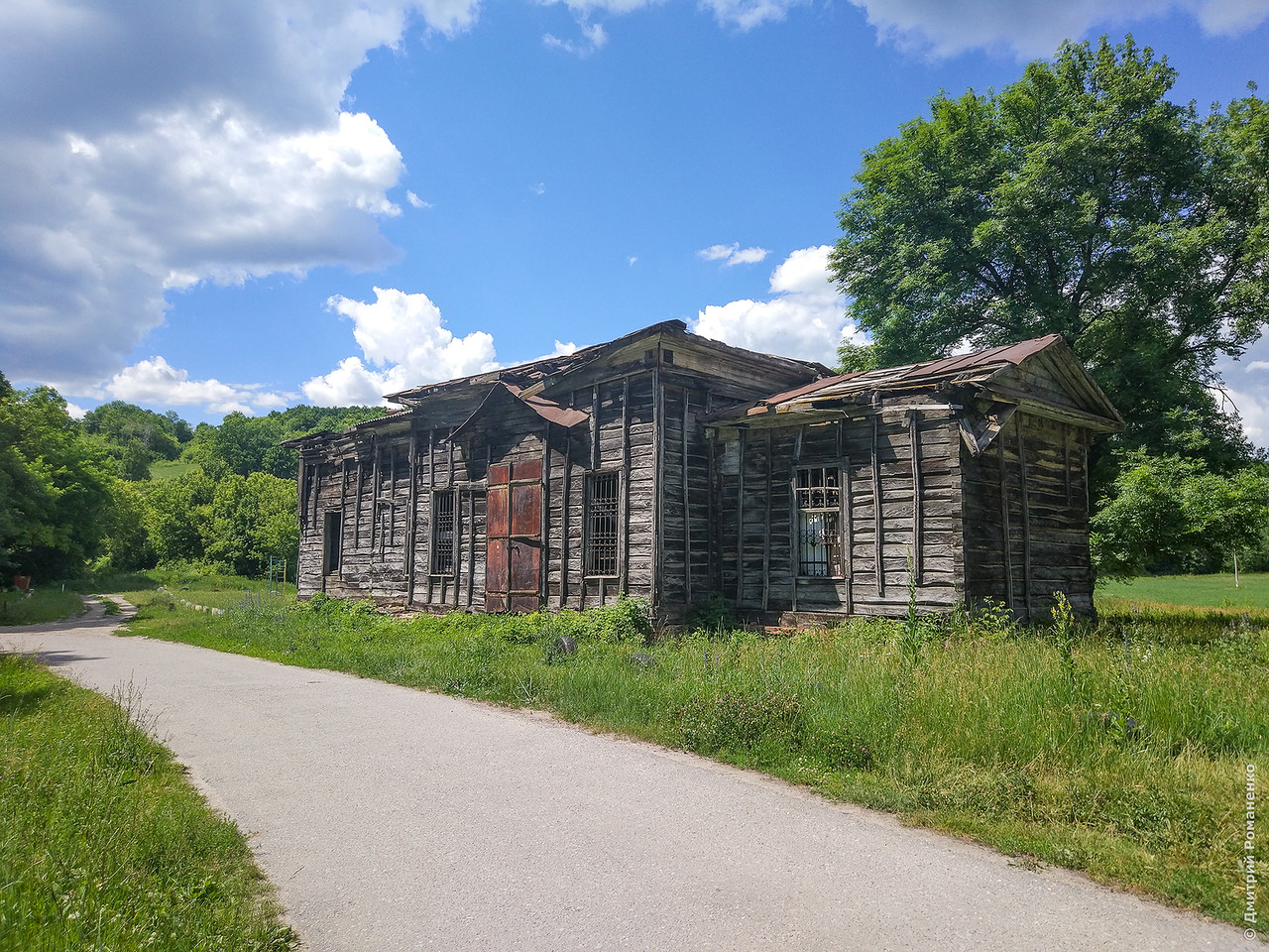 Saint Demetrius of Thessaloniki Church. Village Dmitrievka, Belgorod Oblast, Russia.